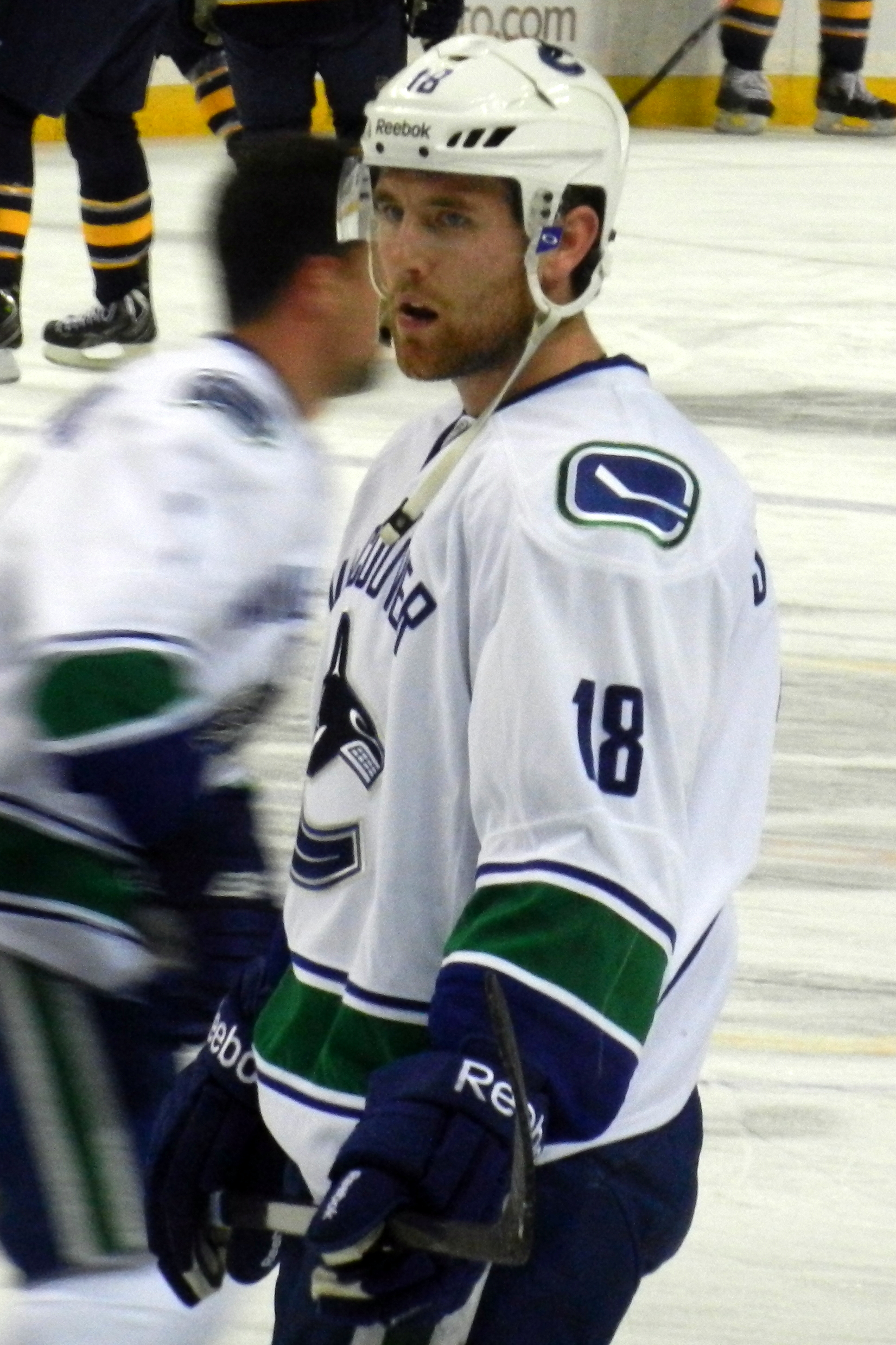 Ryan Stanton with the NHL's Vancouver Canucks during warm-ups before a game aginst the Buffalo Sabers in the 2013-14 season